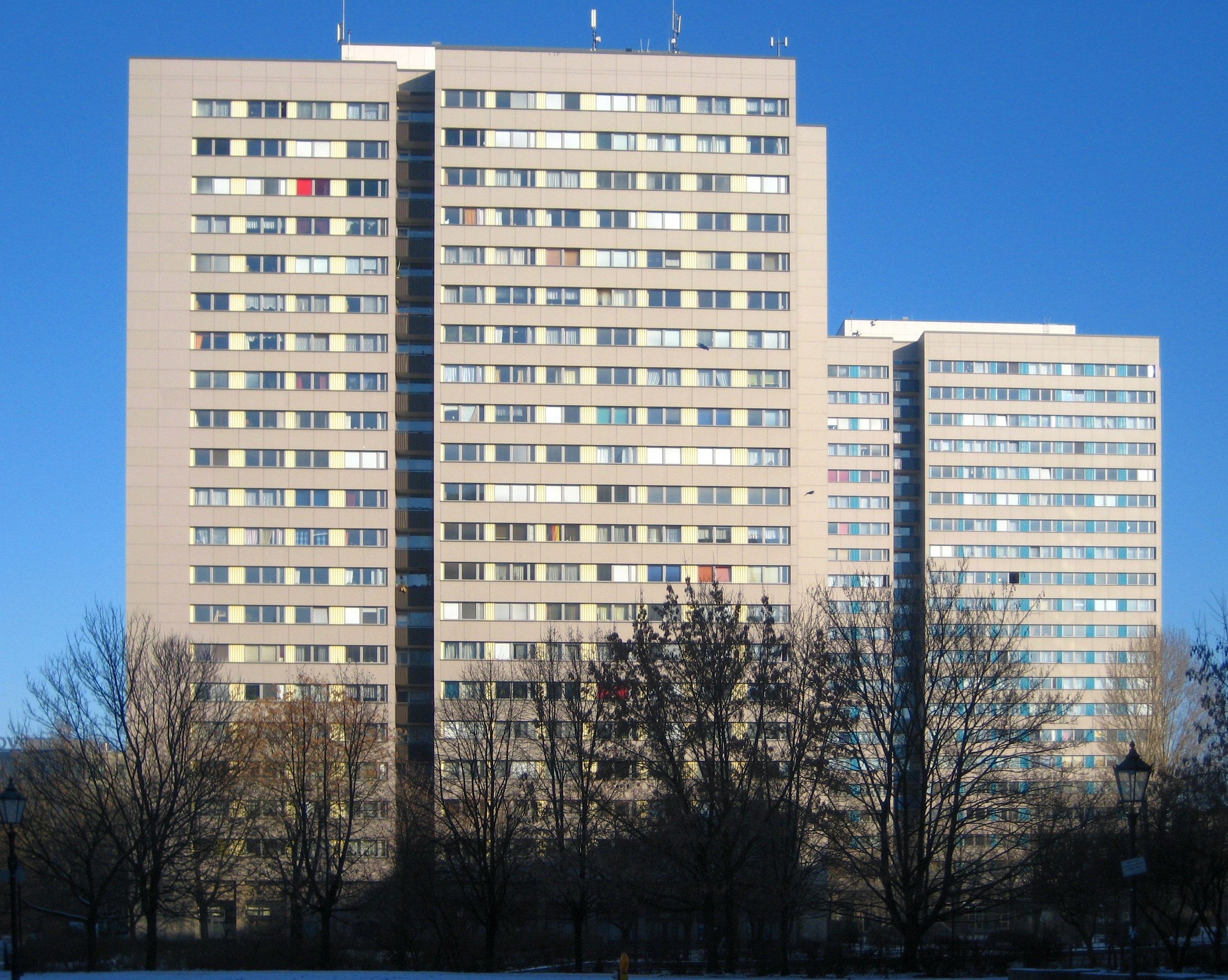 High-rise apartment buildings on Fischerinsel (the southern part of Spreeinsel) in Berlin, here seen from Spittelmarkt.